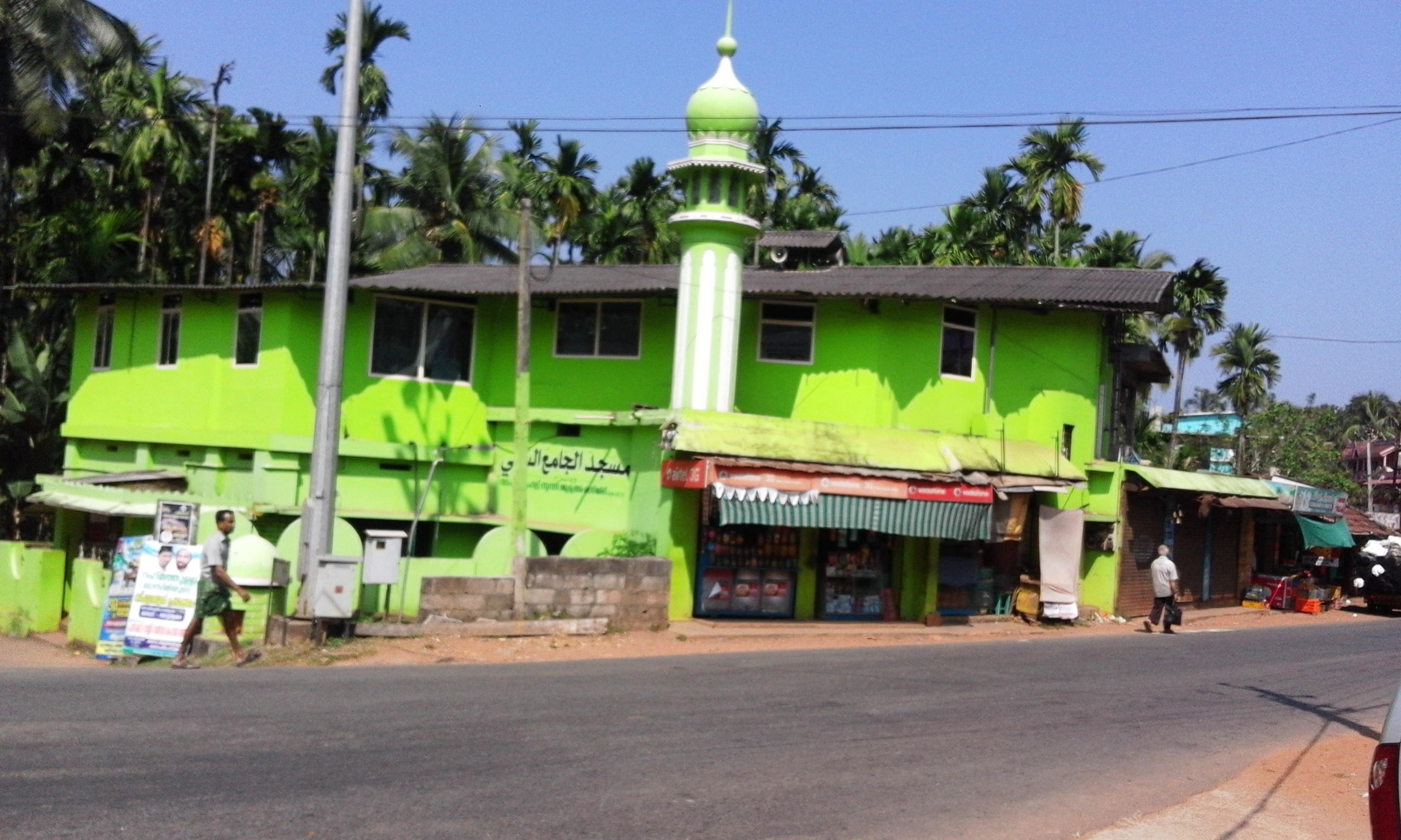 This is T-junction making a major diversion to Wandoor town. Pictured: Vadapuram Mosque, Nilambur, India.